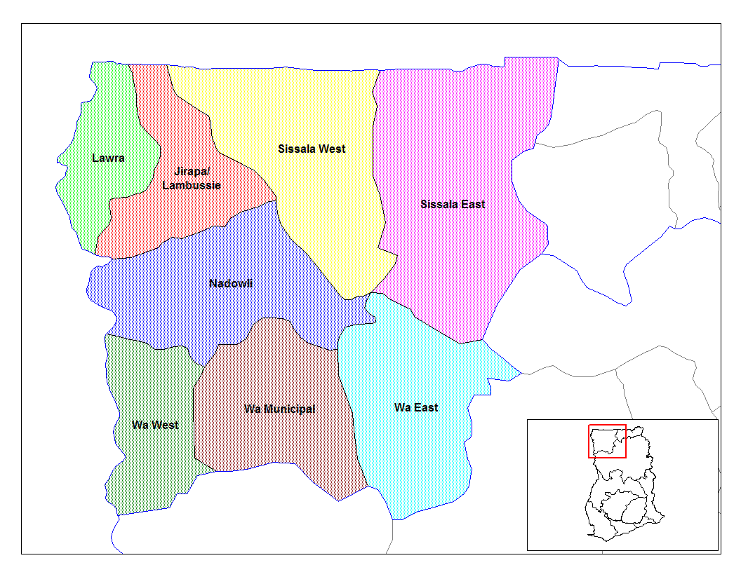 Map of the districts of the Upper East region of Ghana. Created by Rarelibra for public domain use. Created using MapInfo Professional v7.5 and various mapping resources.